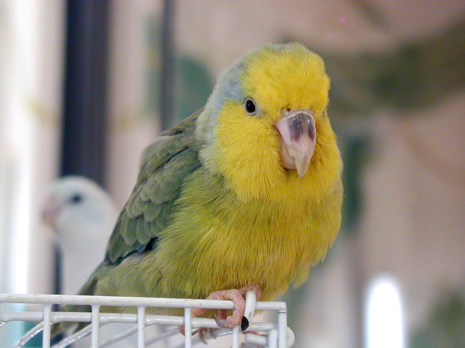 An adult male Yellow-faced Parrotlet perching on the top of its cage.